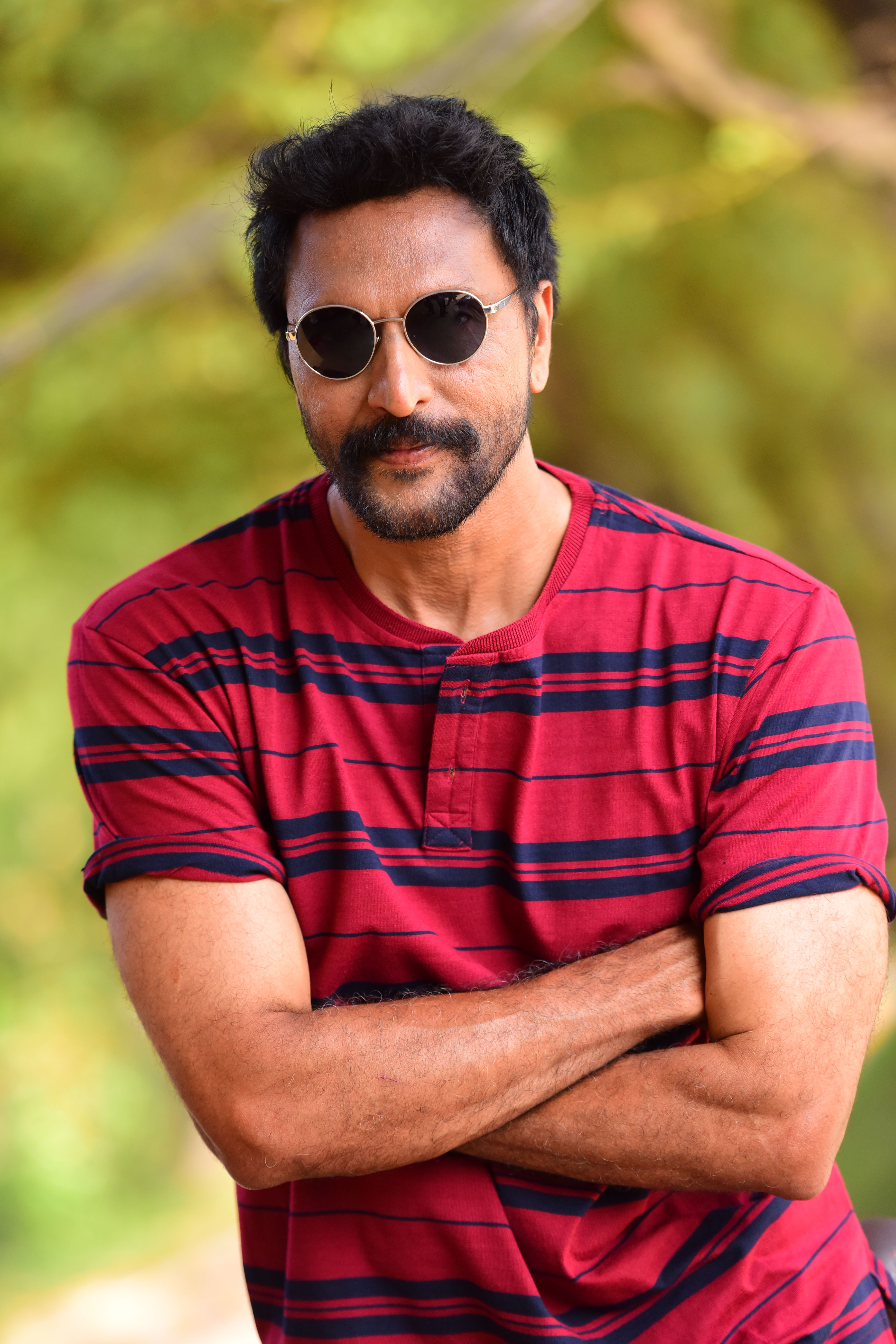 Actor Babu Antony in malayalam movie Karinkunnam 6s.